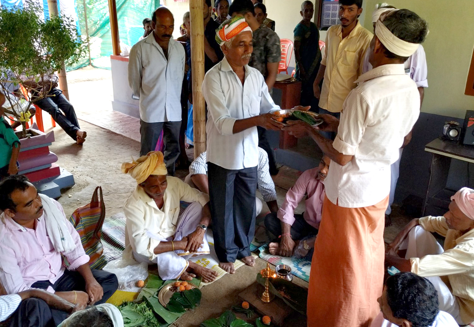 Gowda Community Marrage Program